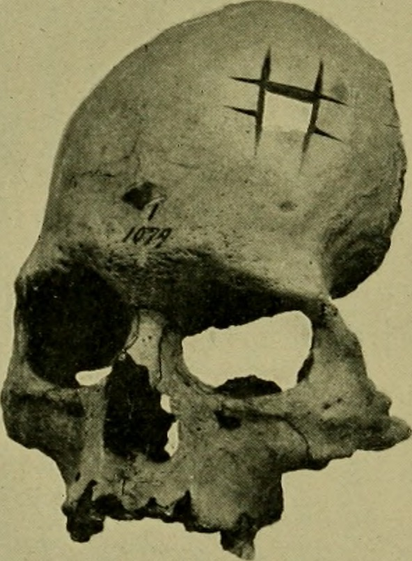 Title: The American Museum journal Year: c1900-(1918) (c190s) Authors: American Museum of Natural History Subjects: Natural history Publisher: New York : American Museum of Natural History Text Appearing Before Image: ' Text Appearing After Image: '